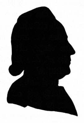 Petter Stenborg, Swedish actor and theater director. Picture published in Volume 1 (of 8) of Nils Personne’s history of Swedish theatre.